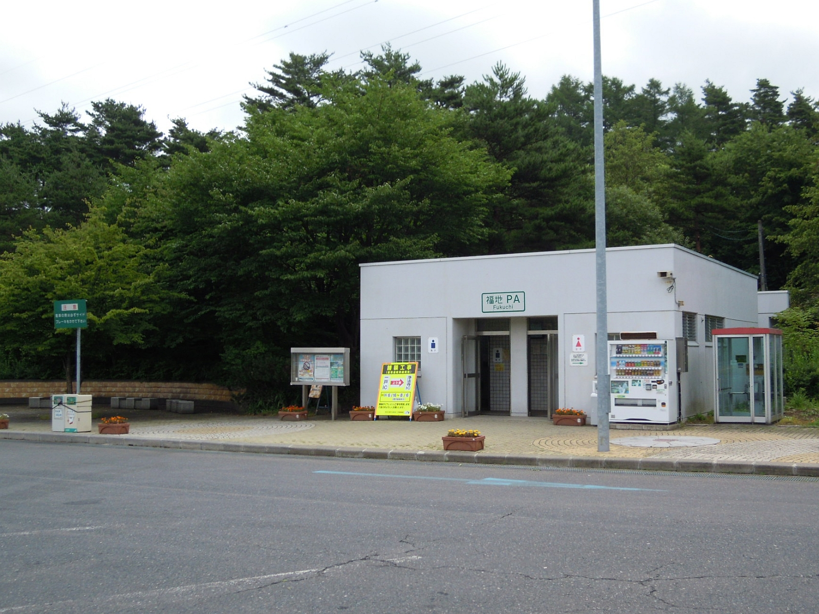 This rest area, Fukuchi Parking Area（for Tokyo）, is on Hachinohe Expressway, in Nambu Town, Aomori Prefecture, Japan.